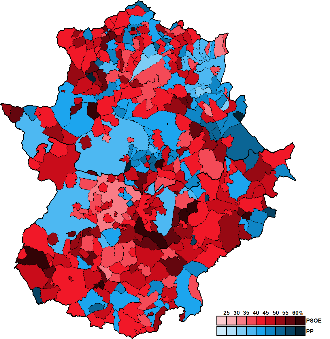 Most-voted party in Extremadura municipalities, showing vote share obtained, in the Spanish general election, 2015.